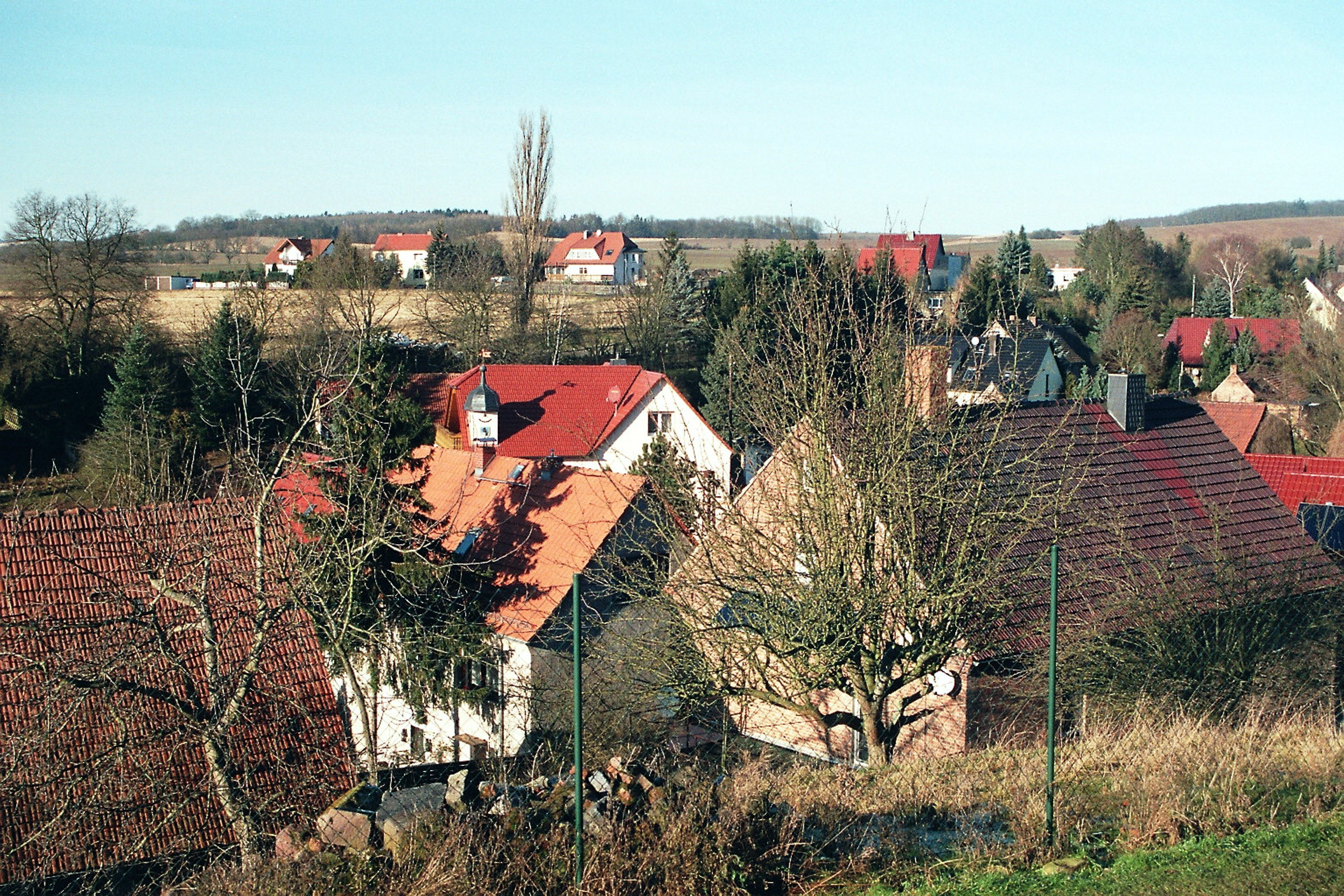 Emseloh (Allstedt), villagescape